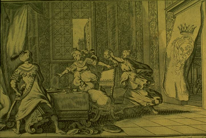 Philomela and Procne showing Itys'head to Tereus. Engraving by Bauer for a 1703 edition of Ovid's Metamorphoses Book VI, 621-647.